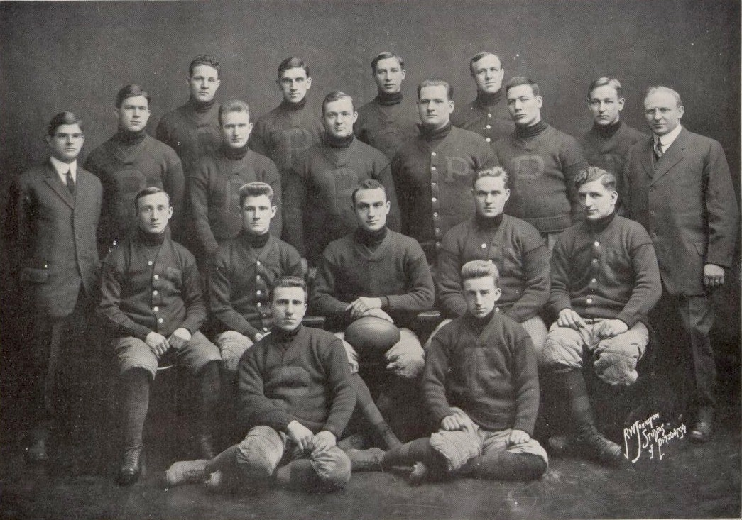 1911 Pitt Panthers football lettermen